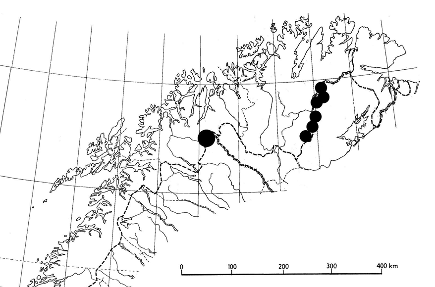 Distribution map of Vertigo ultimathule. The type locality in Sweden is marked with a larger dot (Sweden, Lappland, Pältsan area, Gobmevari, SSE of Pältsastugan).